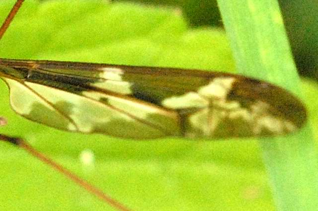 Tipula maxima from Commanster, Belgian High Ardennes .